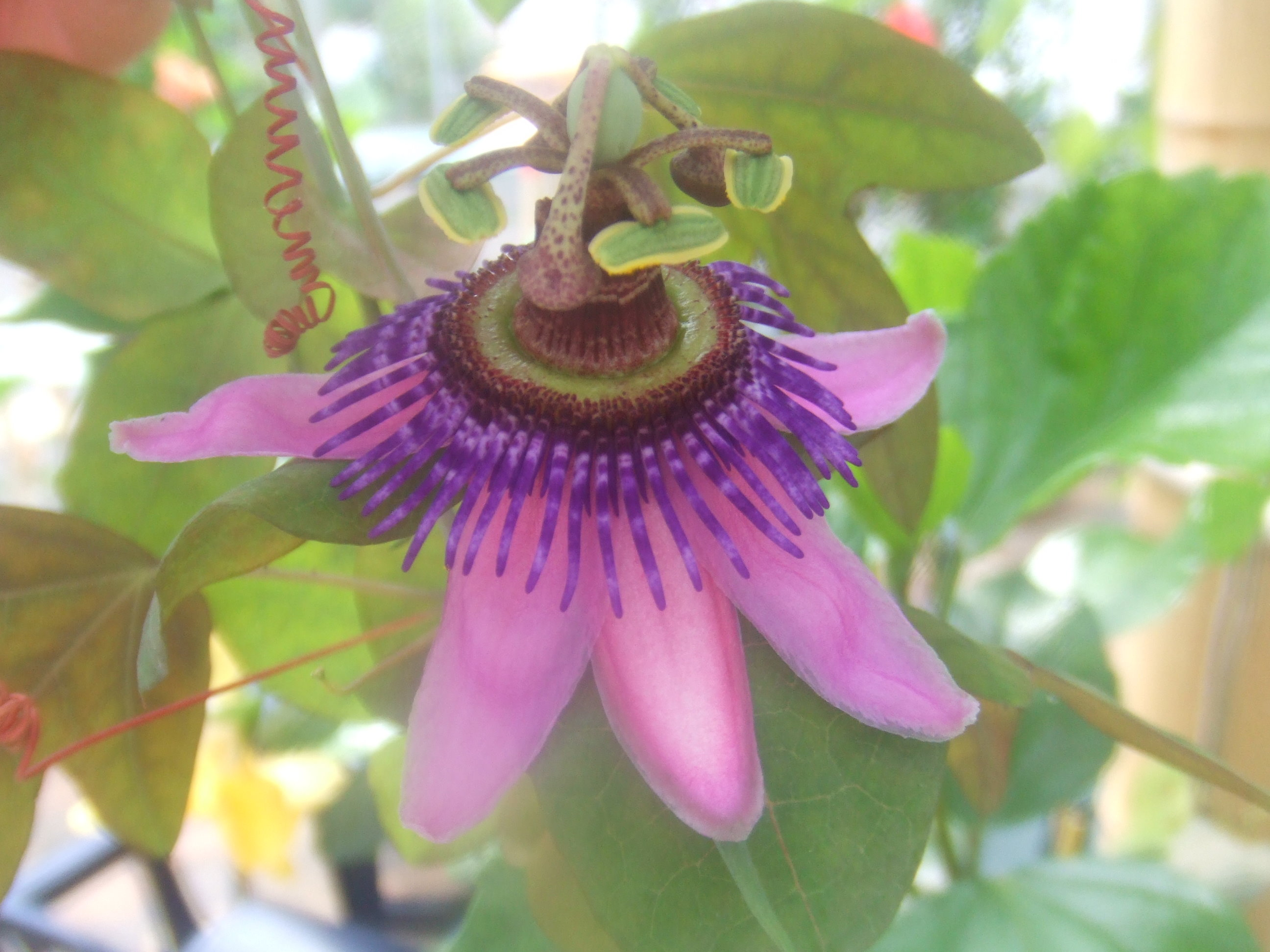 Passiflora picturata, picture taken at Passiflorahoeve in Harskamp, The Netherlands